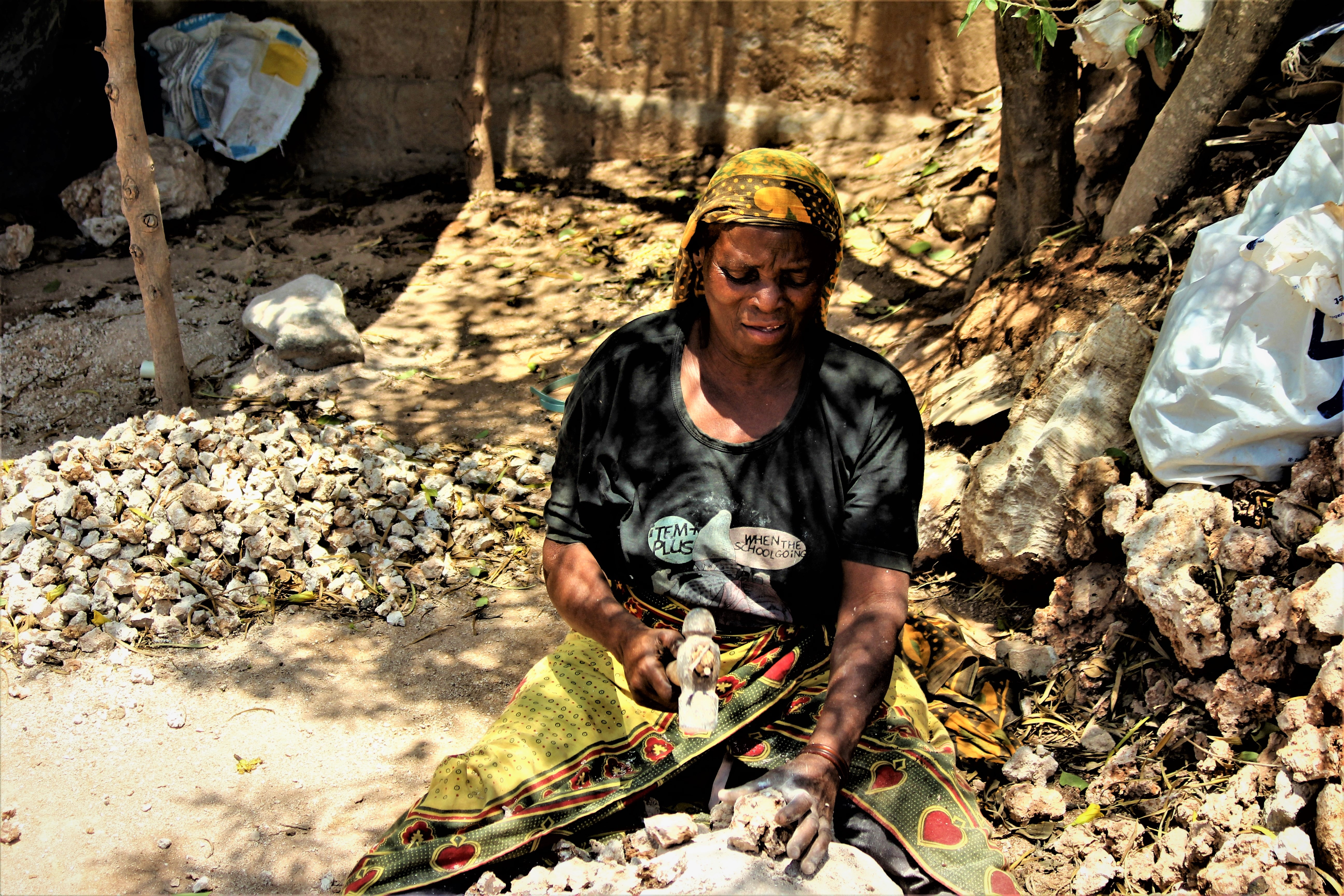 A grandmother working very hard, by making gravel from big rocks This is an image of "African people at work" from Tanzania